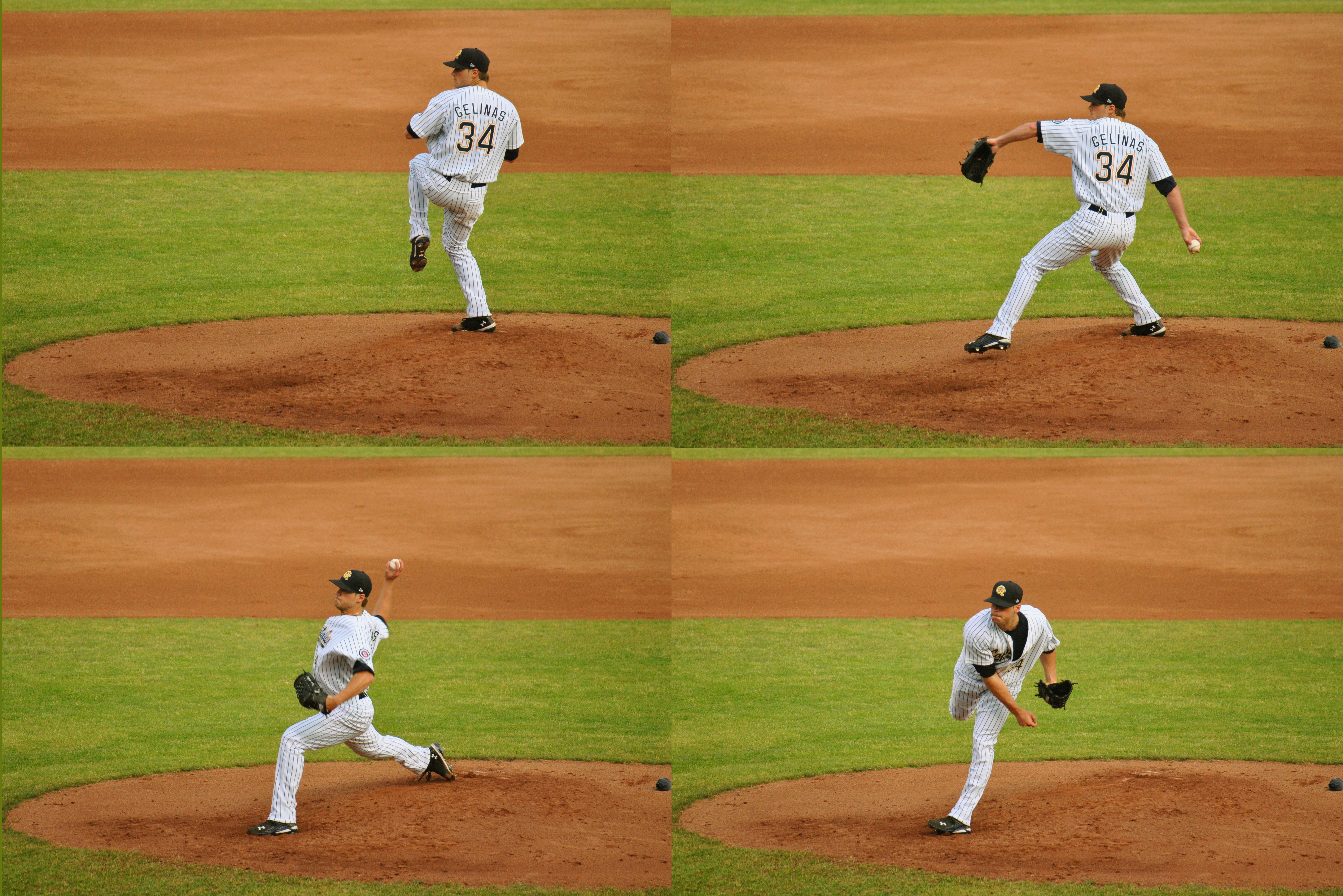 The pitching motion of the Quebec City Capitales' pitcher Karl Gélinas, in the Can-Am independent baseball league.